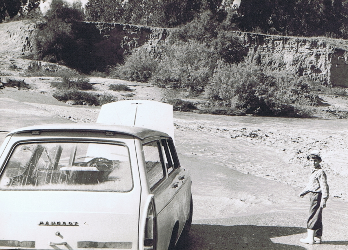 Geography of Israel - sewage flowing on Re'im Bridge, near Kibbutz Re'im, Nahal Habsor.